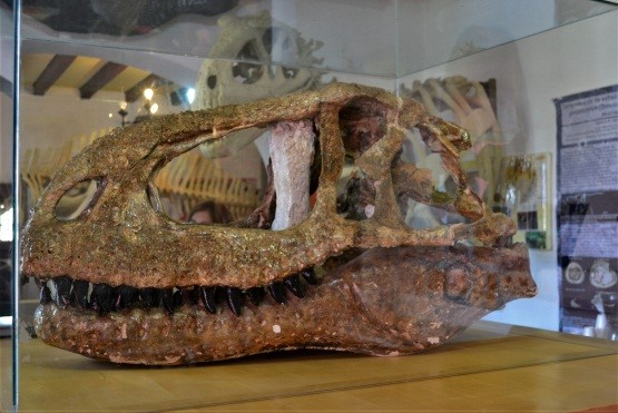 Holotype of Abelisaurus comahuensis (MPCA Pv 11098). Remains of a theropod coming from sand quarries near Pellegrini Lake (Río Negro Province, Argentina). The image shows the skull reconstructed in left lateral view.